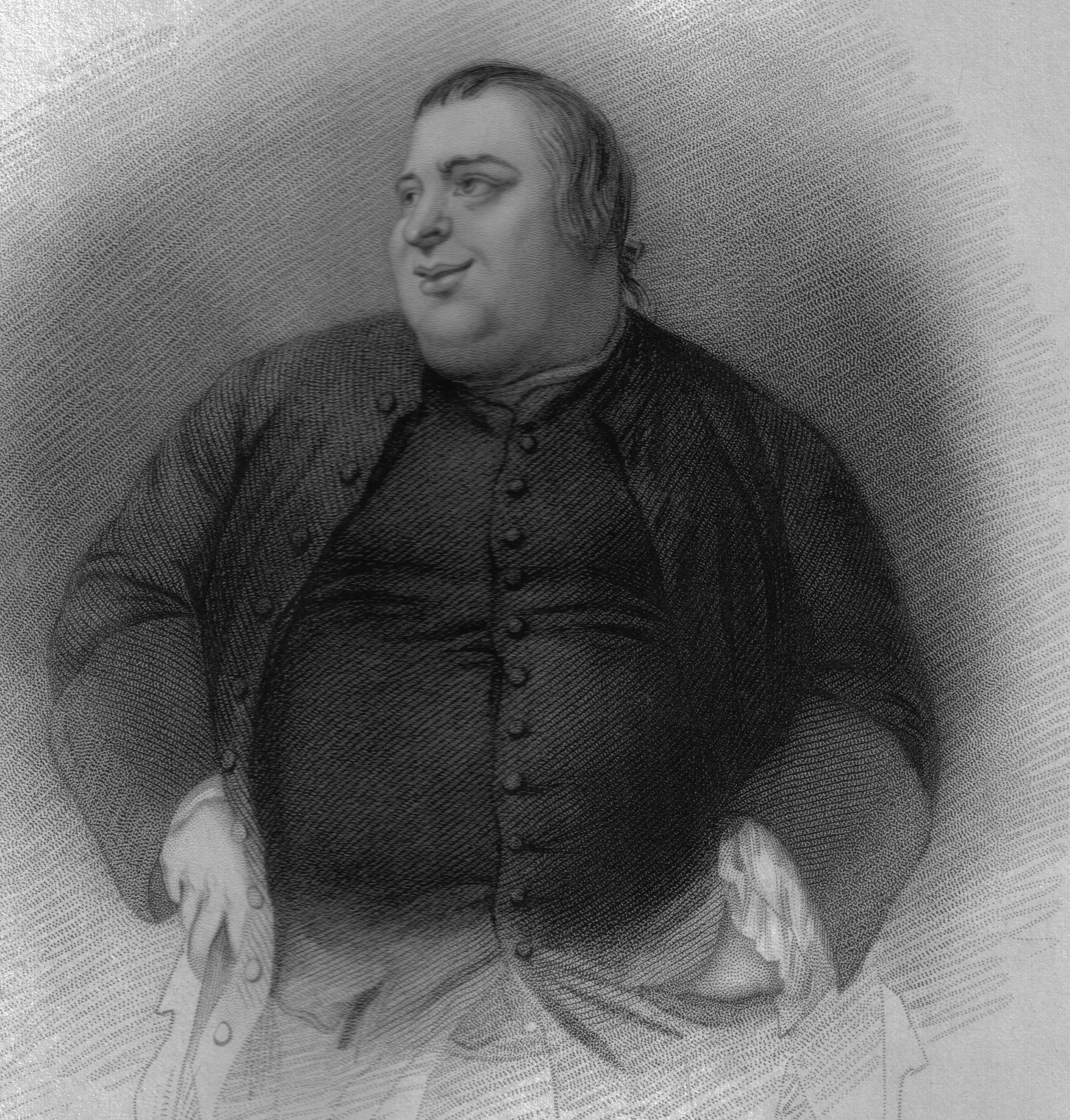 Captain Francis Grose (1731-1791), FSA. Friend of Robert Burns. Antiquary.